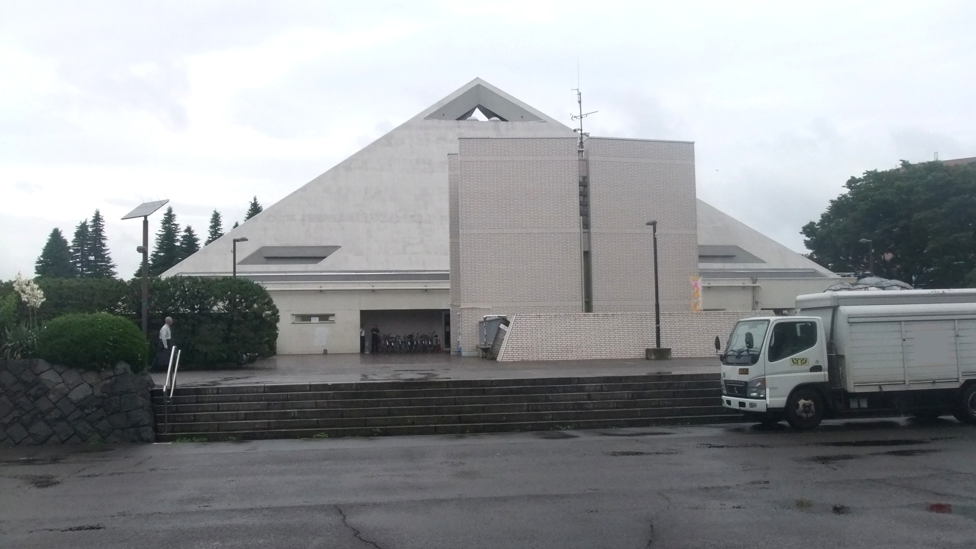 Okura Athletic-Hall